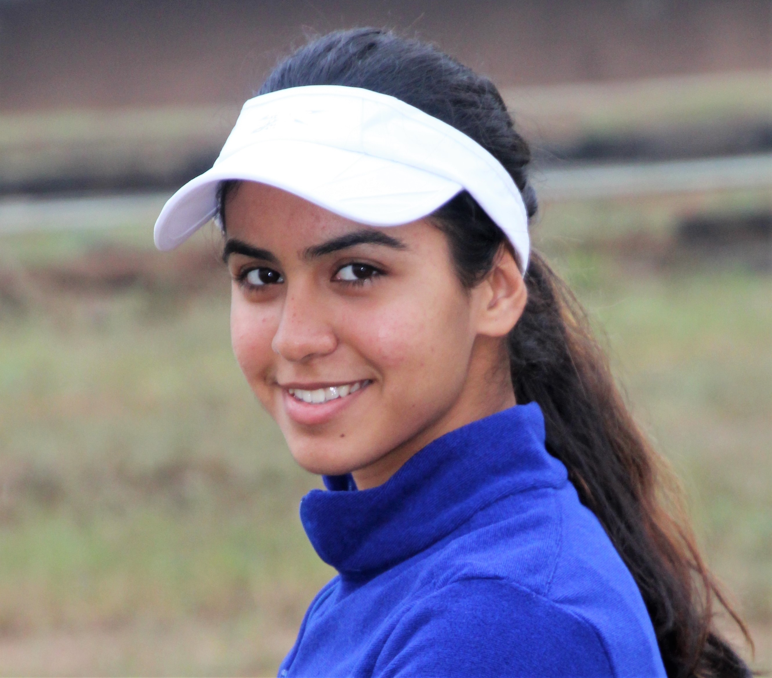 Divya Dhayal doing archery practice